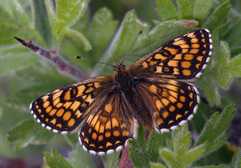 Melitaea athalia / Heath Fritillary. Ankara, TurkeyUnknown amannisa kelebeği. ankara, turkey